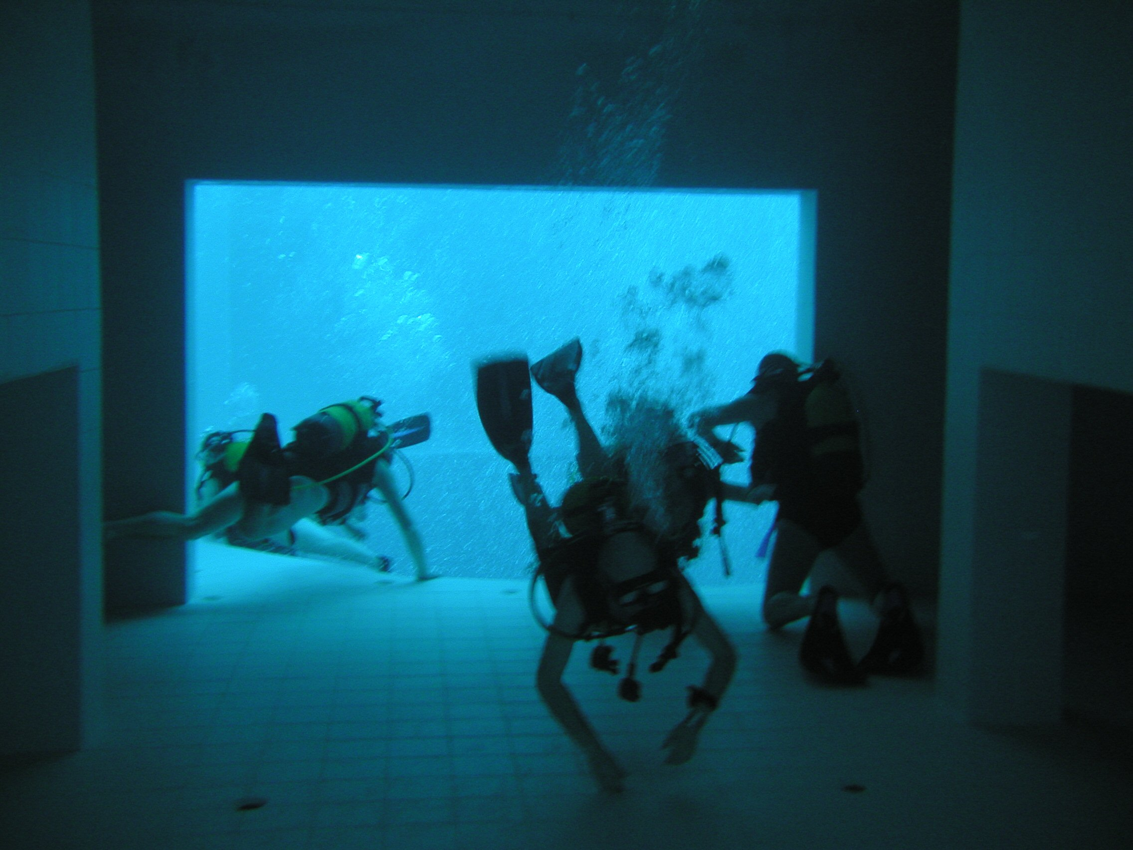 One of the underwater houses at NEMO, with the 33m deep pit in the background.